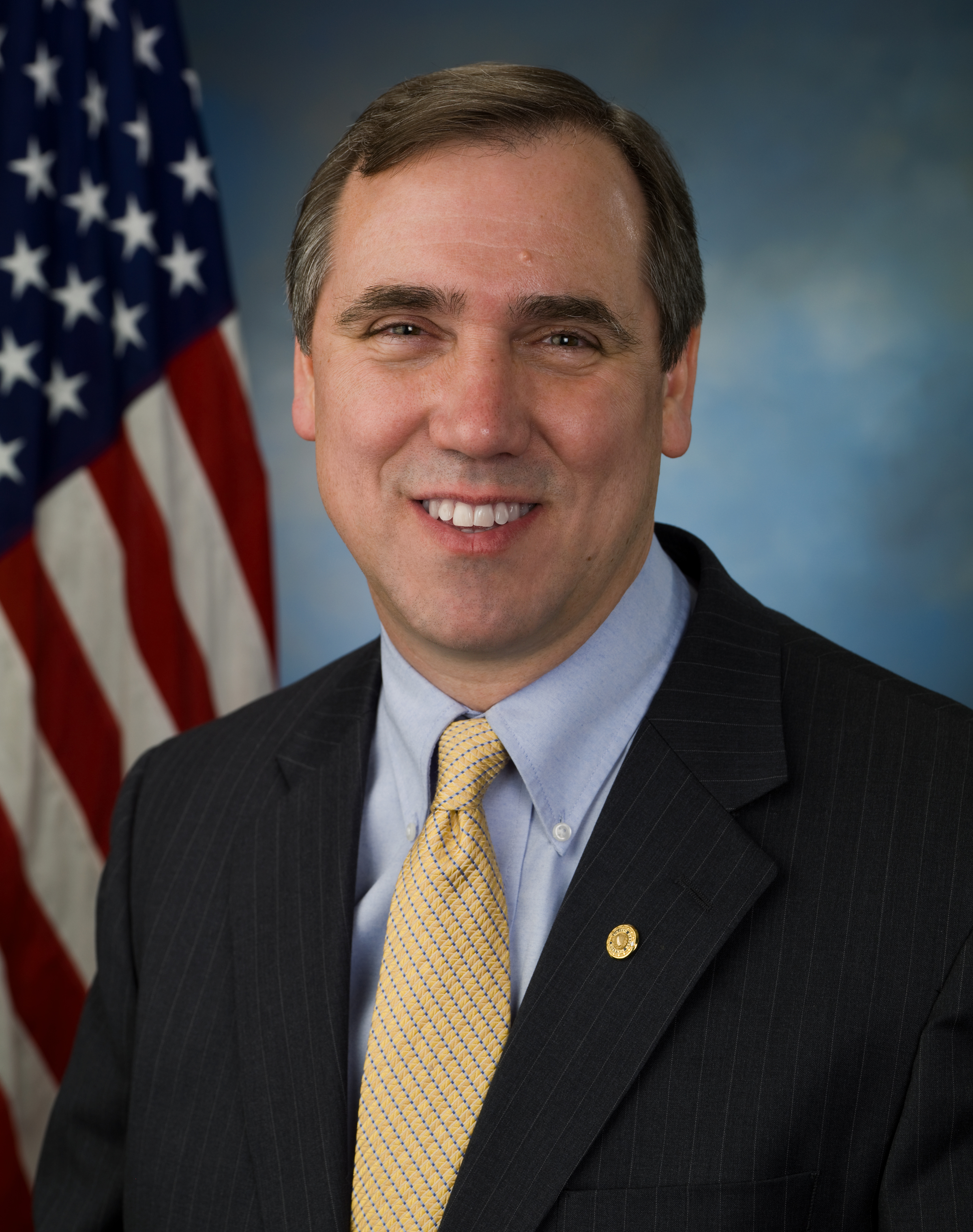 Jeff Merkley, member of the United States Senate from Oregon